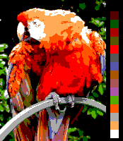 Sample image of simulated PC EGA 16-color screen